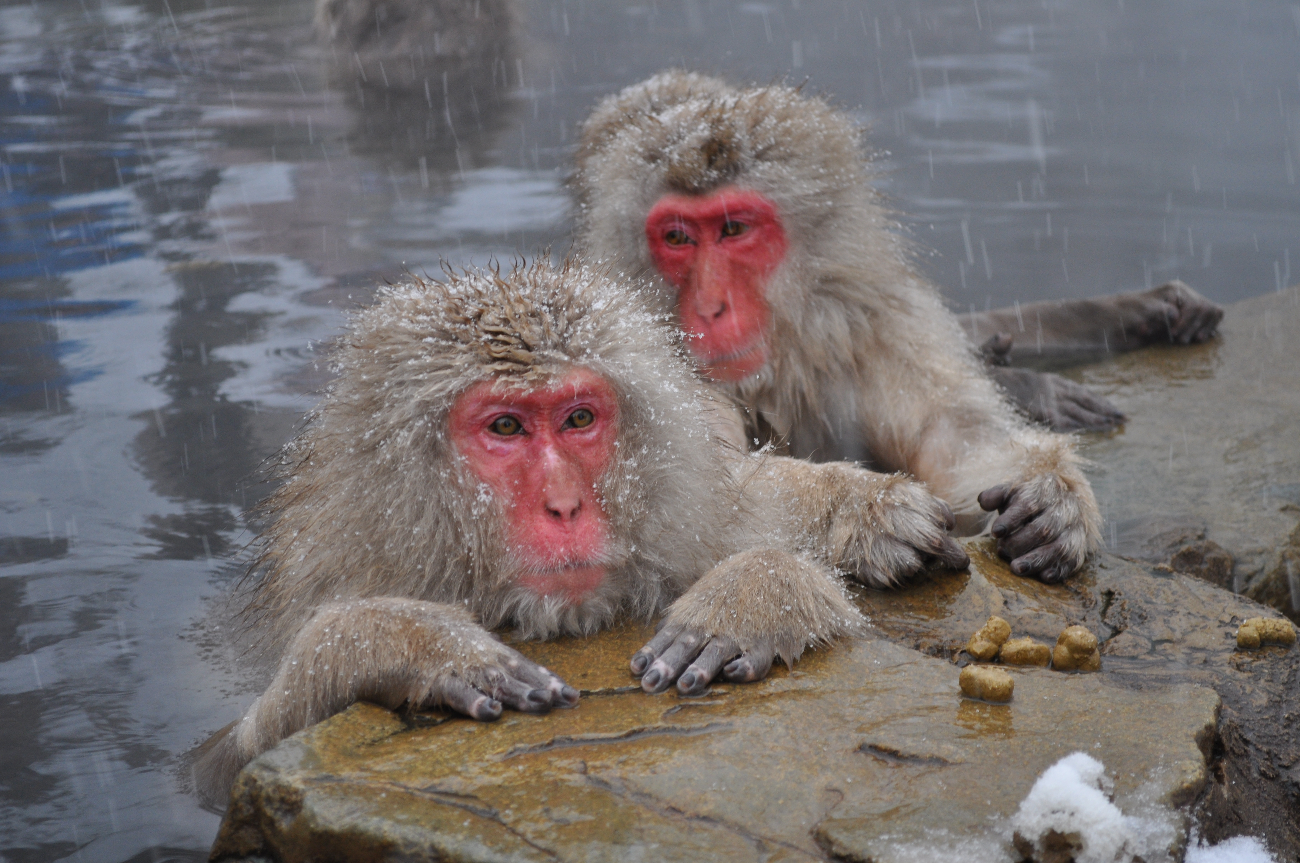 Snow Monkeys, Nagano, Japan.